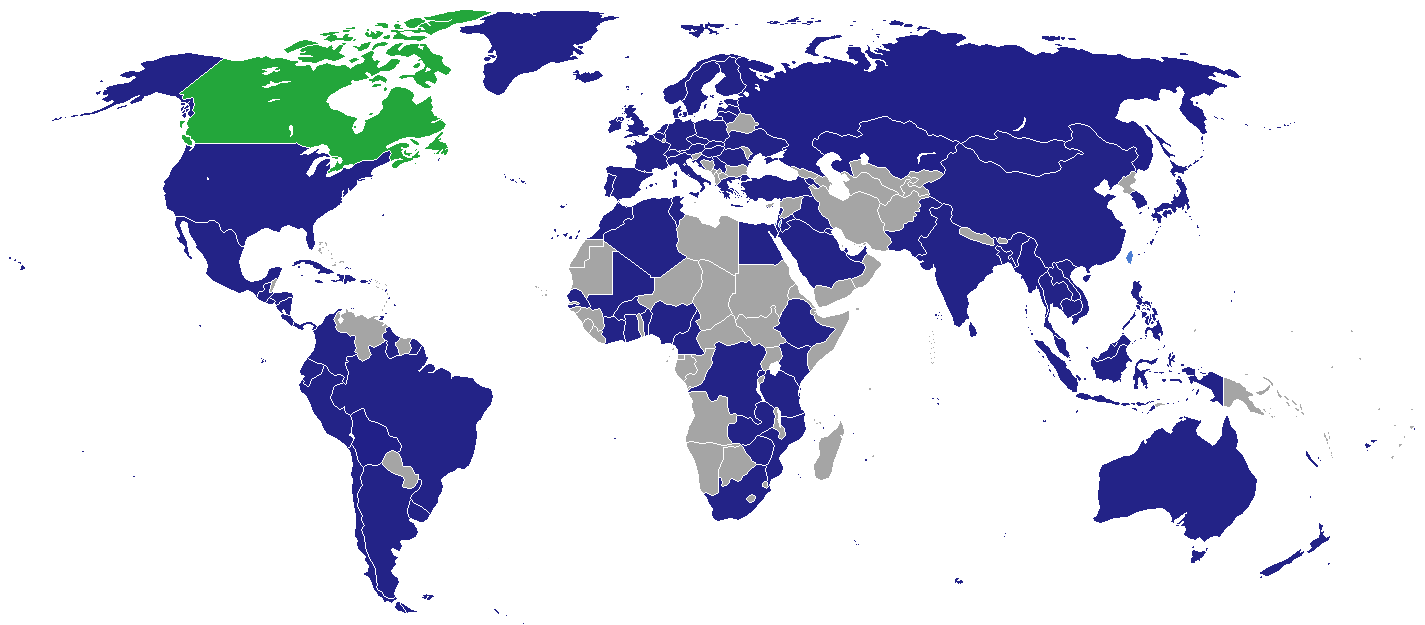 Countries that house a Canadian High Commission or Embassy, Canada is shown in blue. Current as of June 2015.